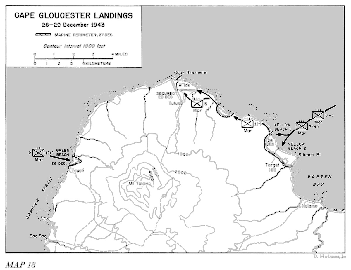 Map showing US military landing operations around Cape Gloucester